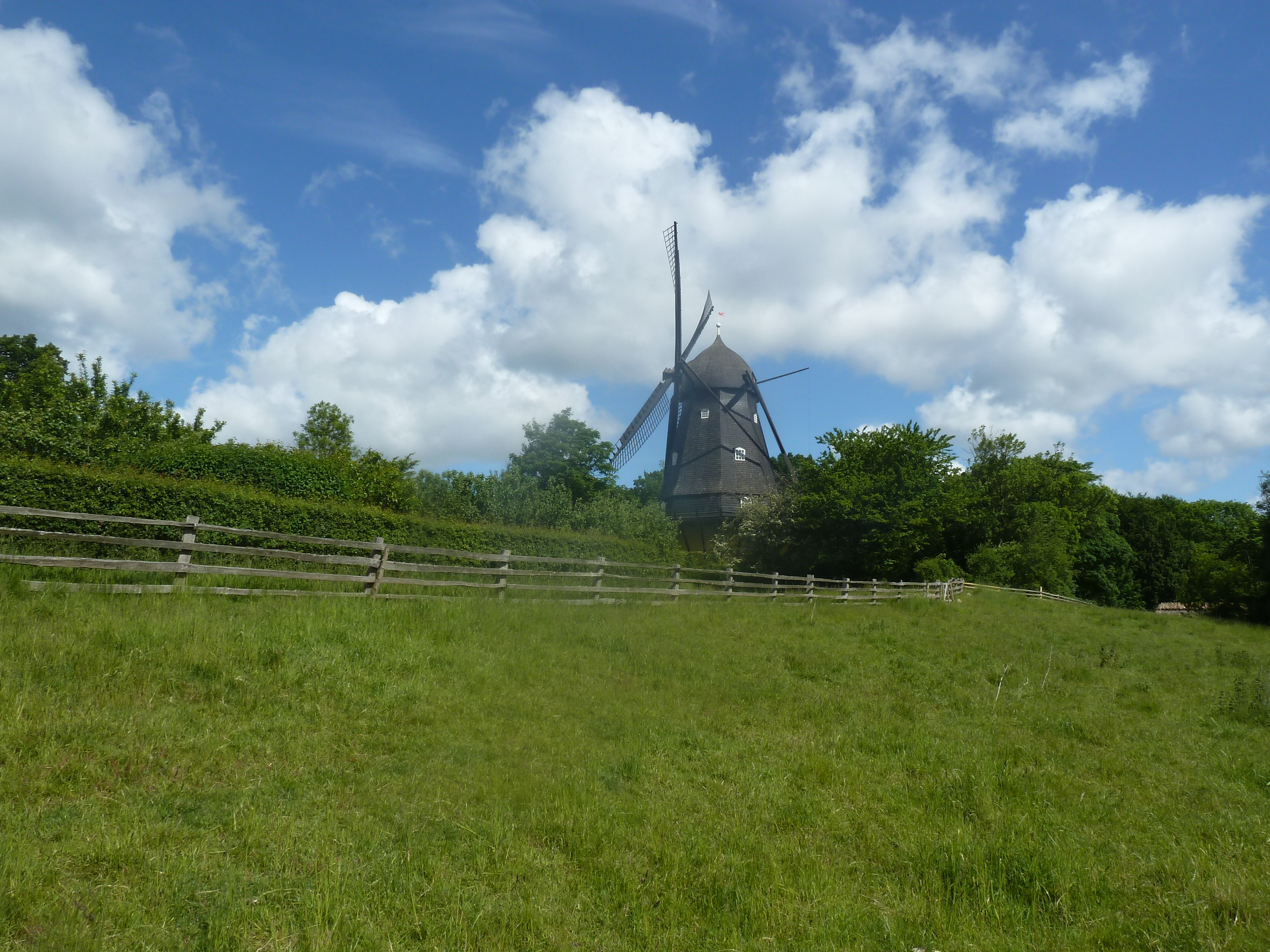 Mill from Fuglevad, now on Frilandsmuseet (the open air museum) north of Copenhagen.